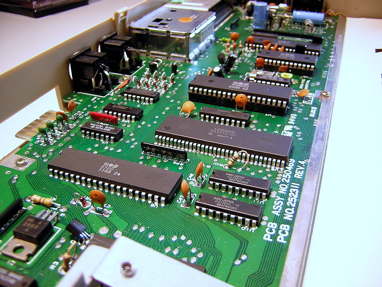 Commodore C64C Mainboard